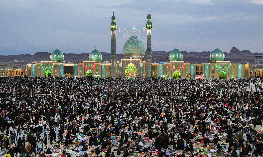 Mid-Sha'ban 1439 AH, Jamkaran Mosque, Qom ,main album